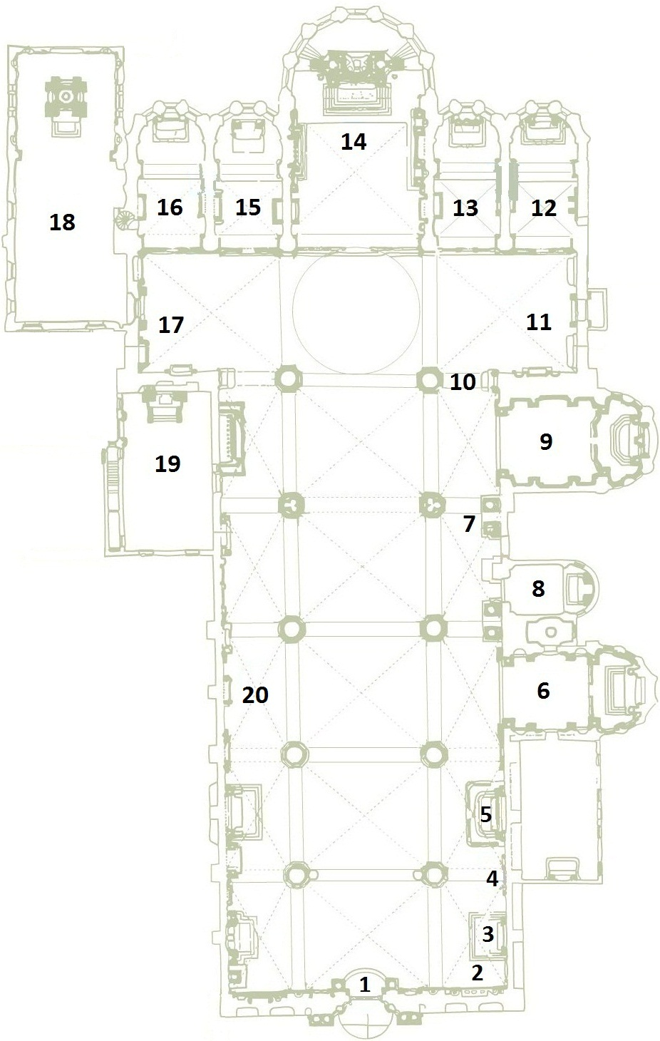 Plan of Santi Giovanni e Paolo church in Venice